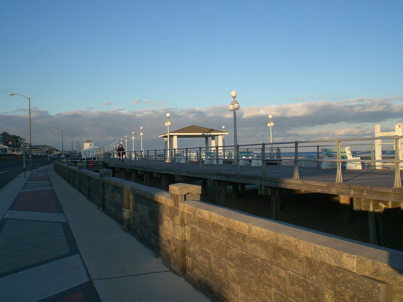 Avon-by-the-Sea, New Jersey.